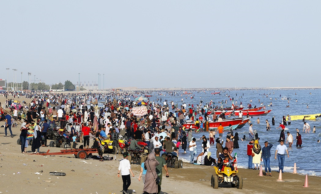 Bandar Abbas beaches, Nowruz 2018. main album